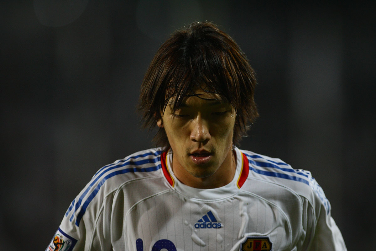 NOVEMBER 19, 2008 - Football : Shunsuke Nakamura of Japan during the 2010 FIFA World Cup Asian Qualifiers Final round Group 1 match between Qatar and Japan at Al Sadd Club Stadium on November 19, 2008 in Doha, Qatar. (Photo by Tsutomu Takasu)